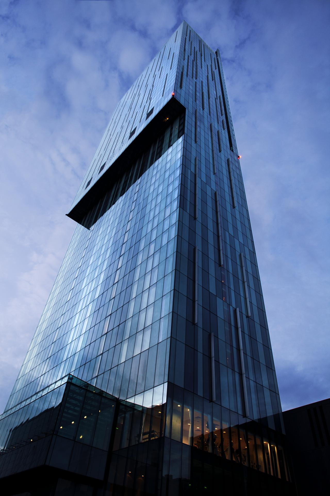 Beetham Tower in the evening.